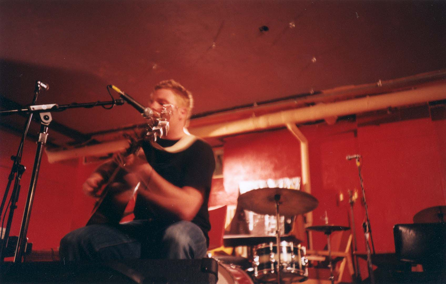 he opened his mouth and everyone went wow.